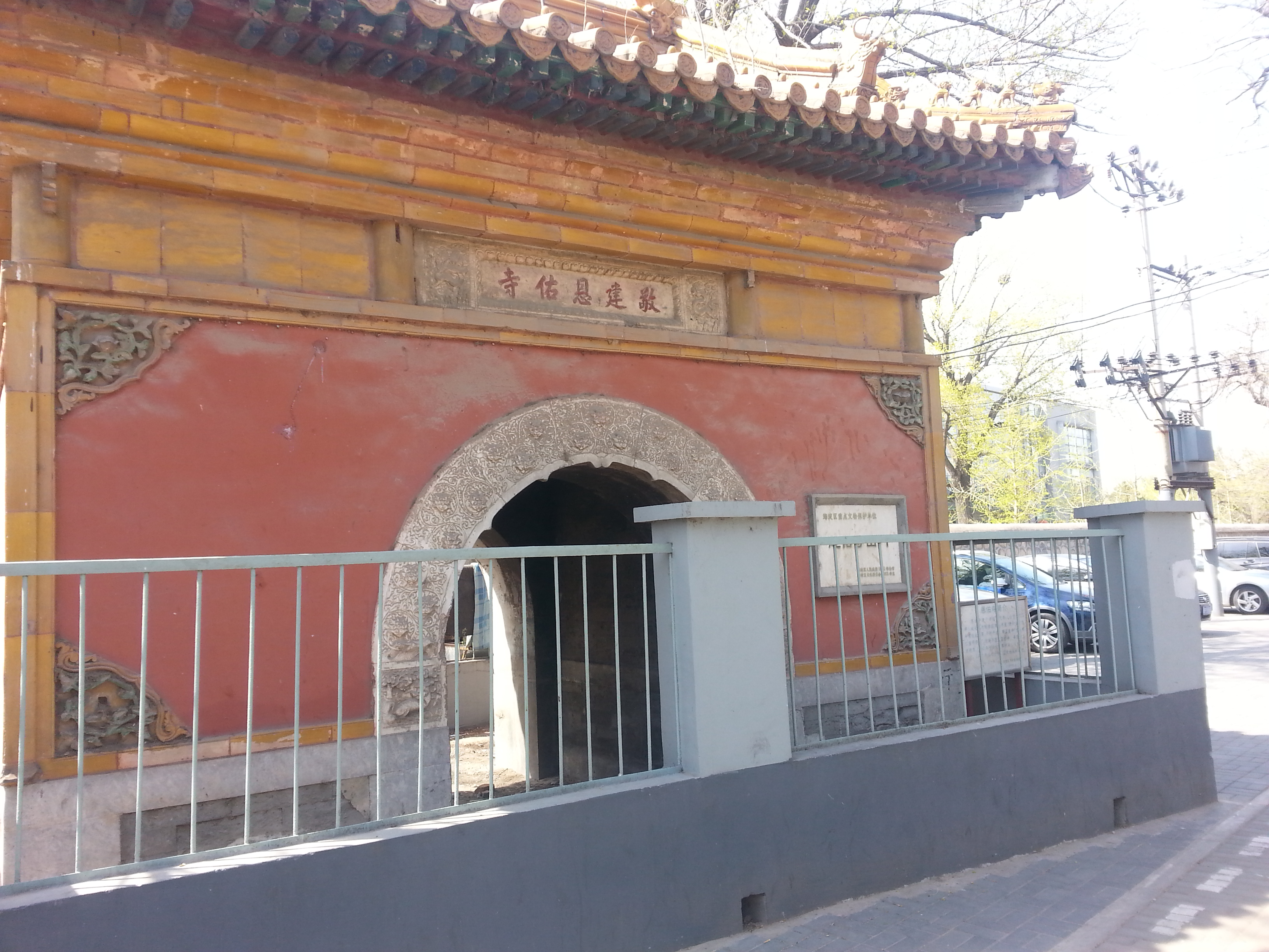 海淀区文物保护单位